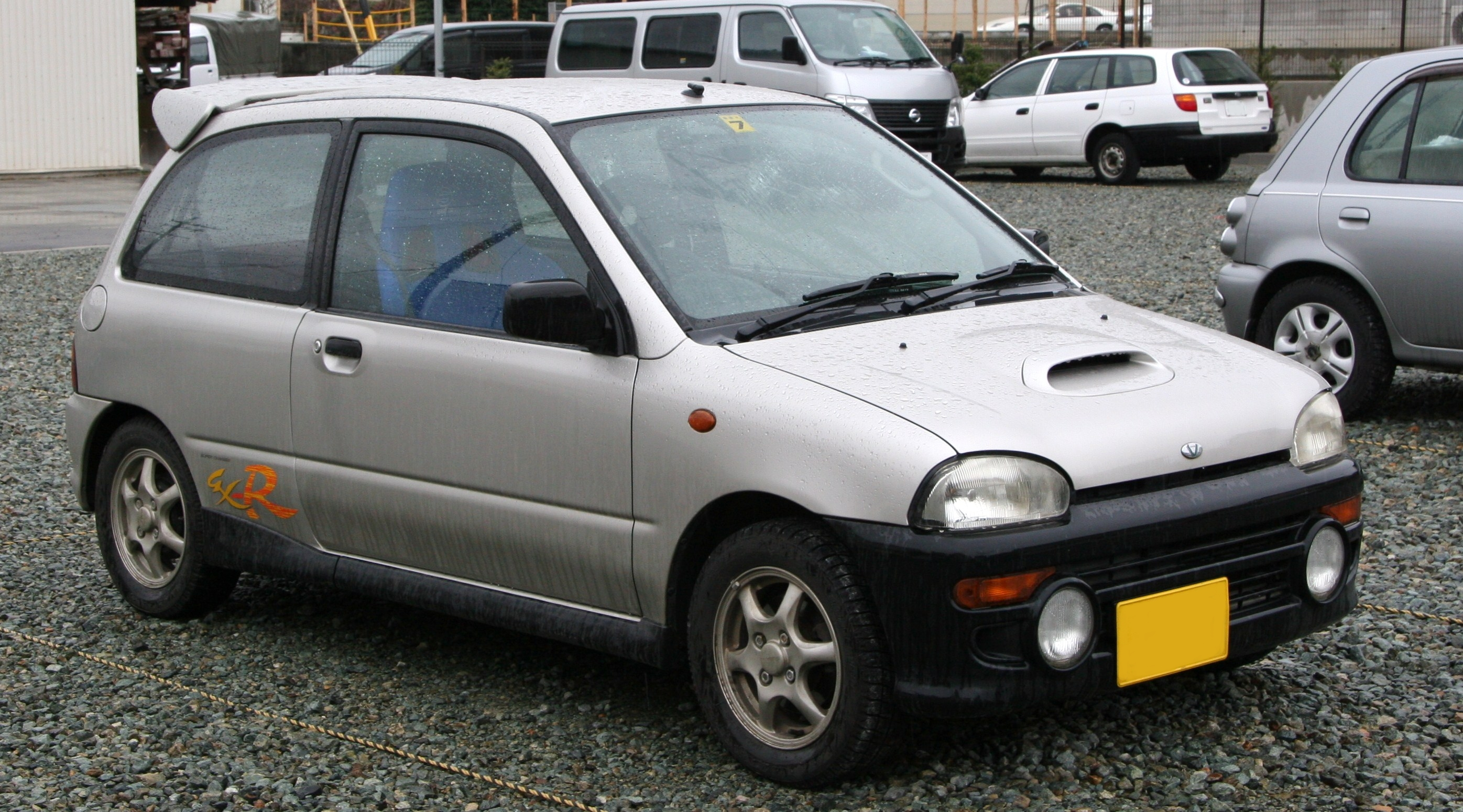 Subaru Vivio